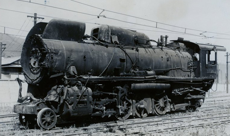 Steam locomotive Mikaha1578 in South Korea in 1951. Originally North China Transportation Company Mikai1578, to (North) Korean State Railway in 1945 as Mikaha1578, captured by ROK forces in 1951 and taken south for repair.